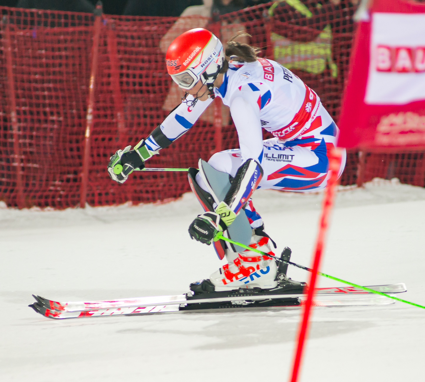 Petra Vlhova in full speed Photo by Roland Osbeck